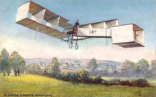 French postal card showing Santos Dumont flying the "14 bis"